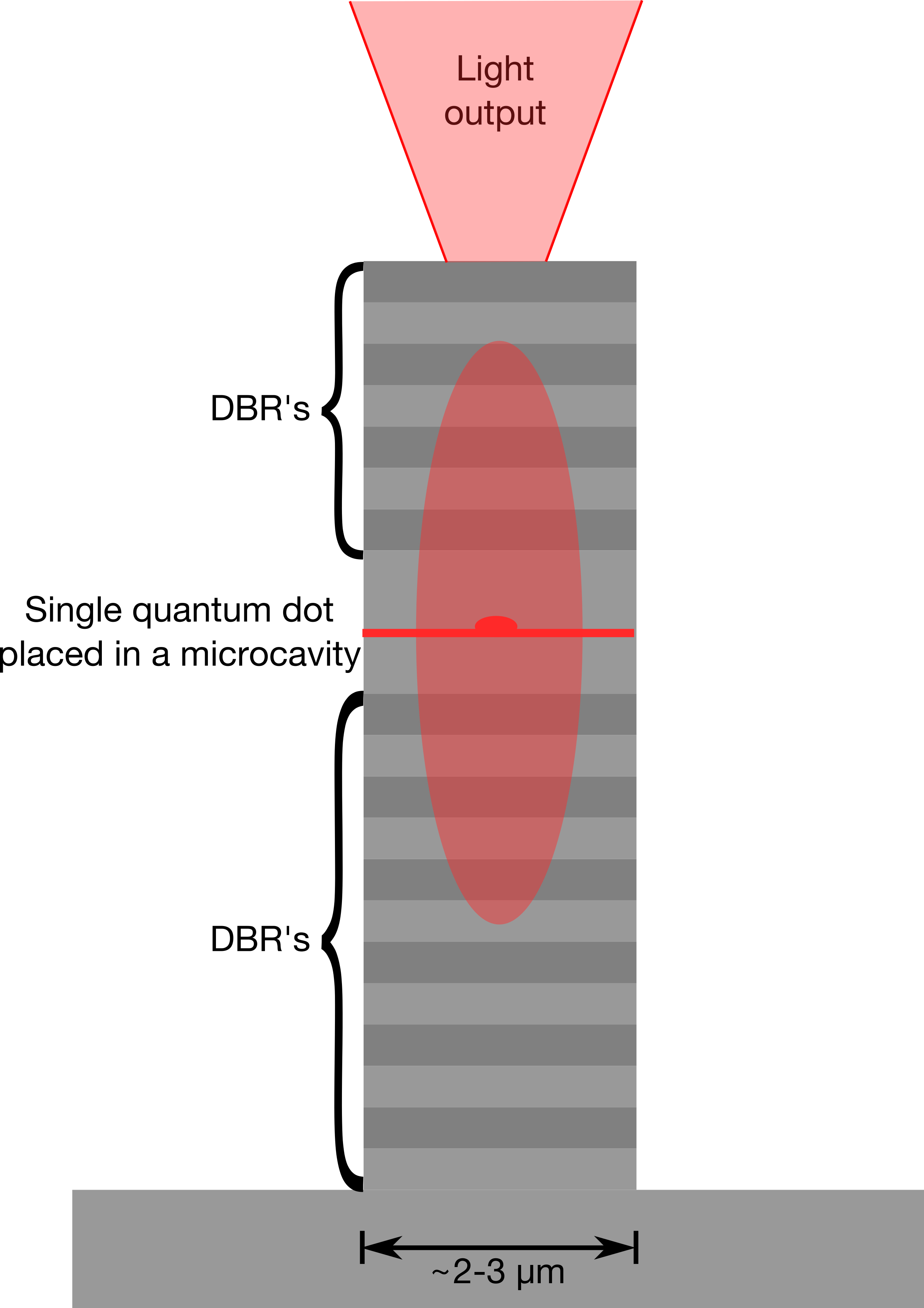 Schematic strucure of an optical microcavity with a single quantum dot placed in it. This structure can be used as a single photon source.